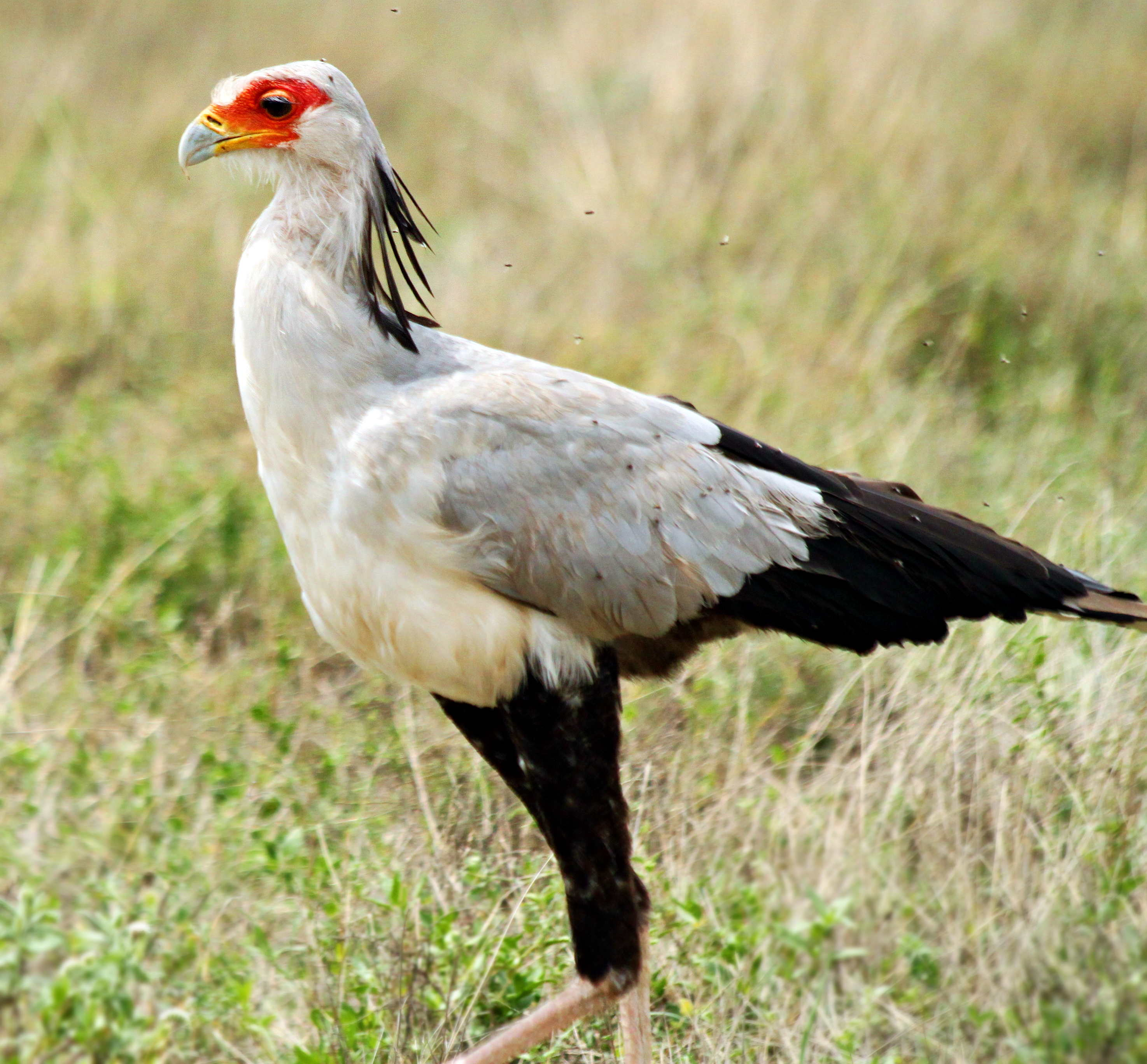 Secretary Bird seen in Serengeti National Park, Tanzania